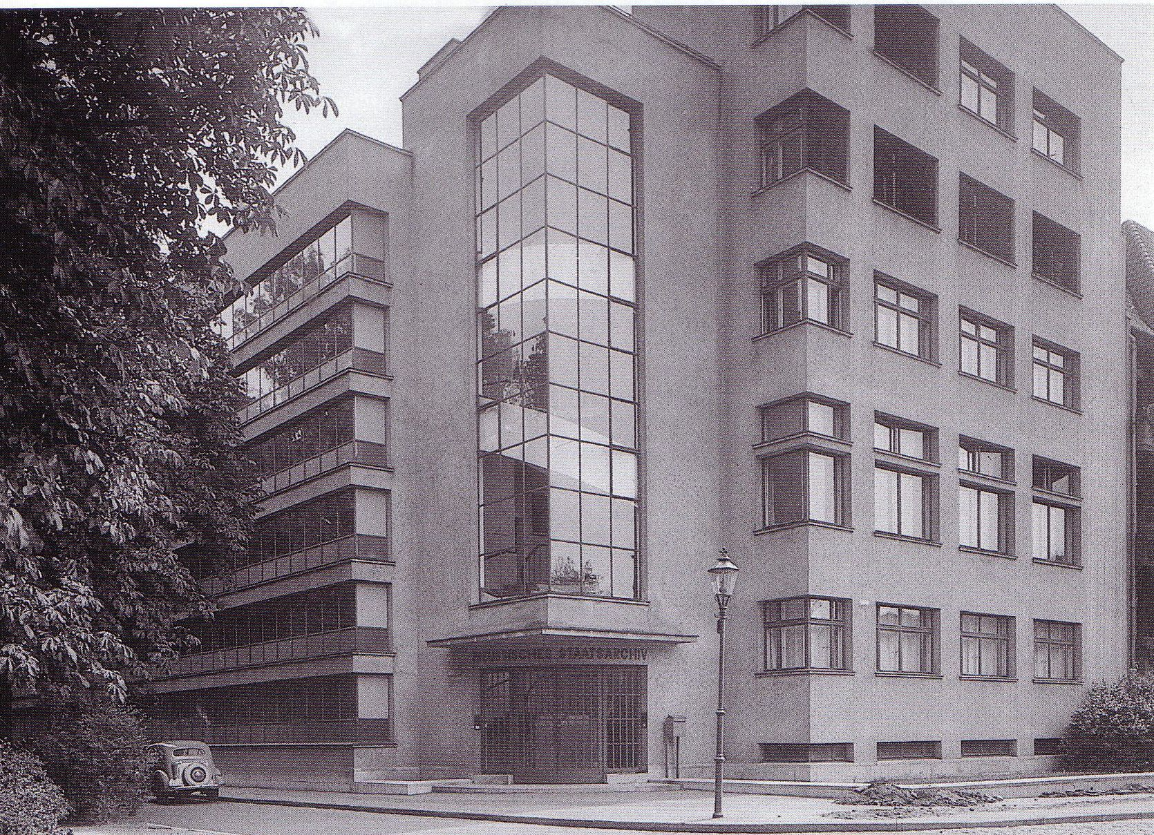 Photography of the Prussian State Archive (Preußisches Staatsarchiv) in Königsberg.